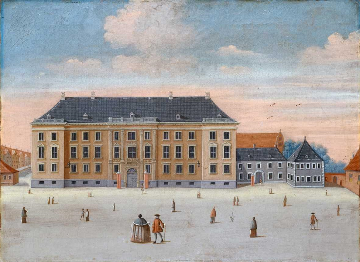 Charlottenborg on Kongens Nytorv in Copenhagen, Denmark. The gate to Bremerholm is seen to the right.